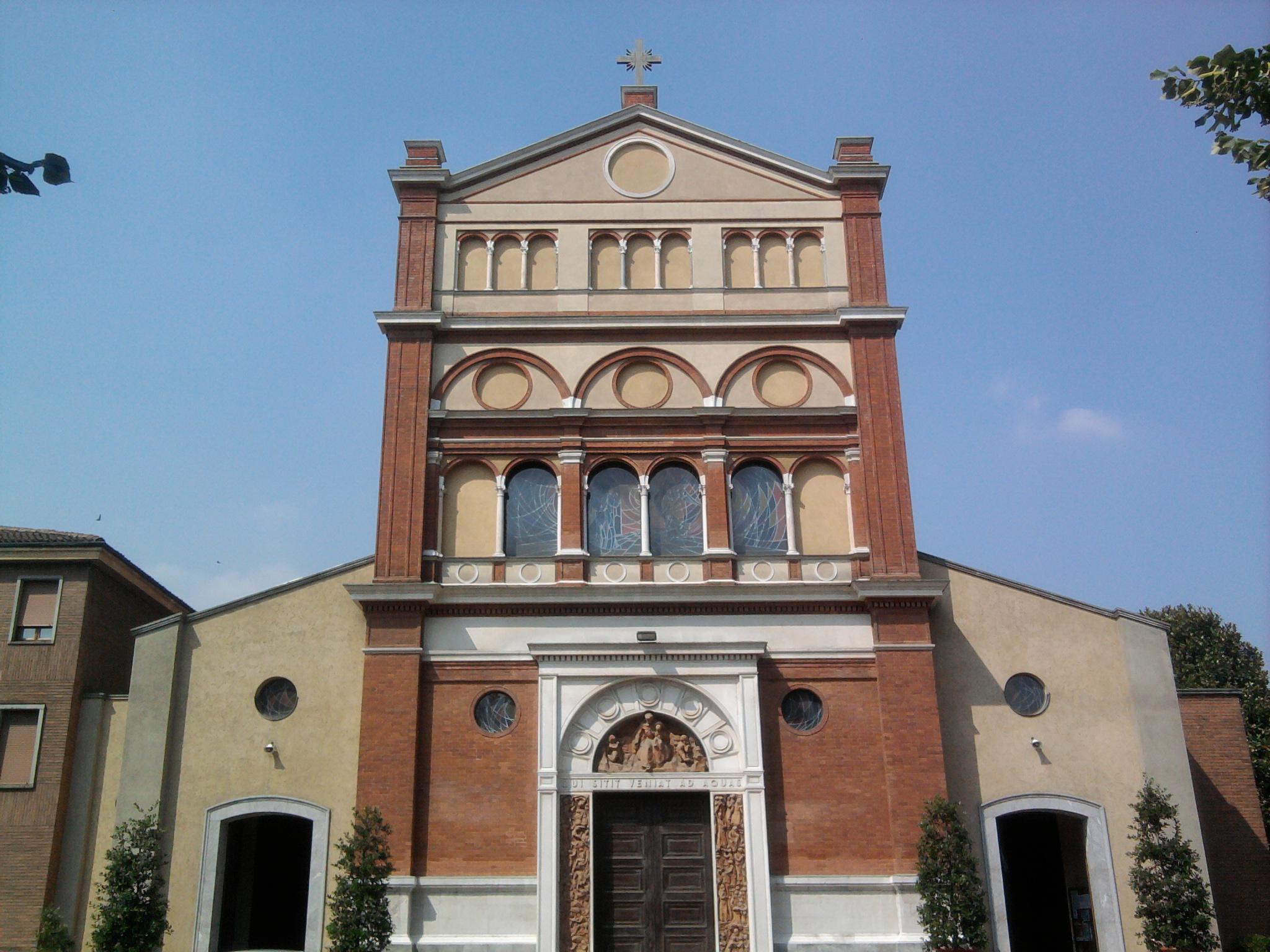 Facade of Santa Maria alla Fontana's Church in Milan.